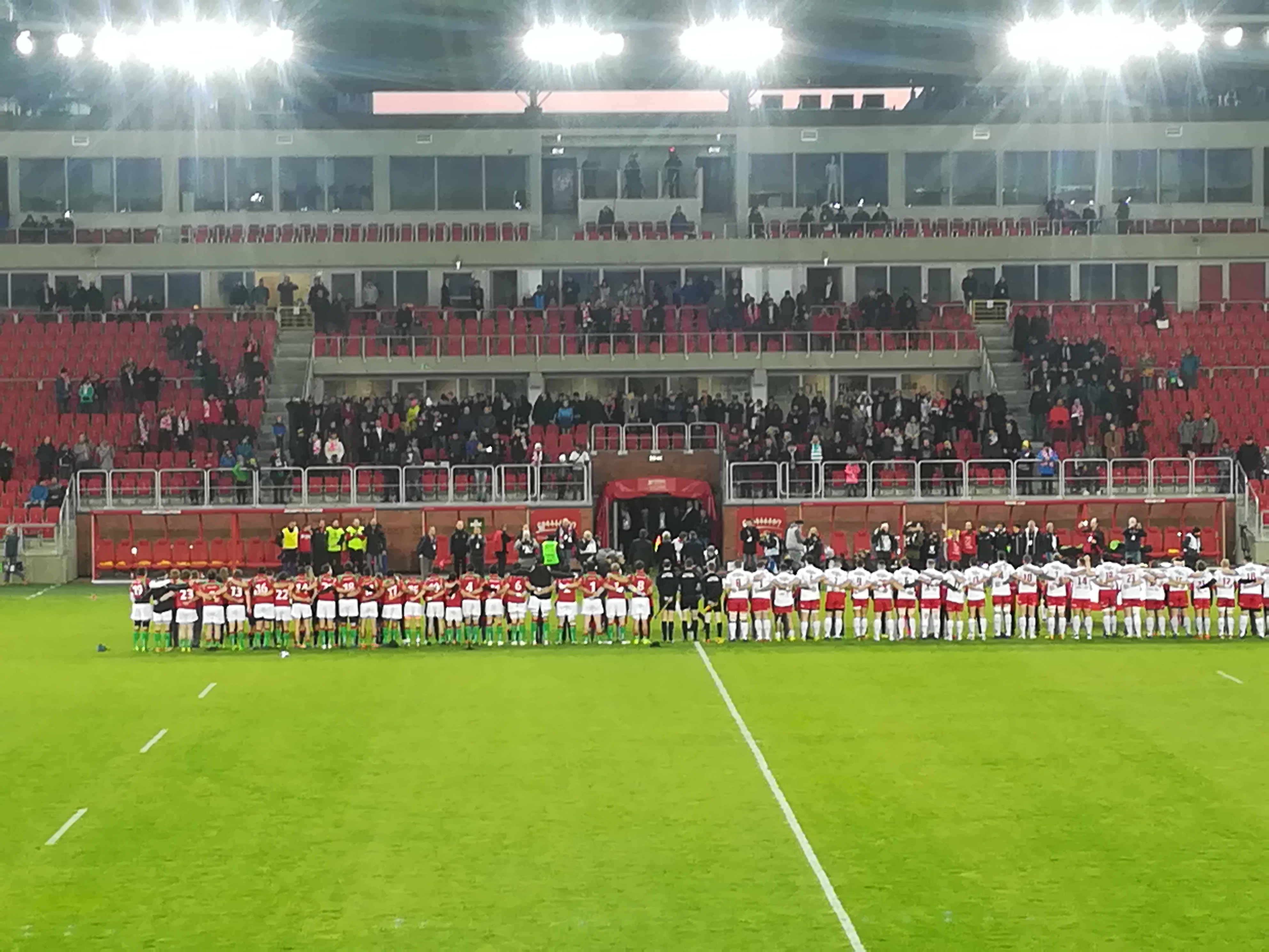 Poland-Portugal match in 2017–18 Rugby Europe Trophy; Łódź 2018-03-24